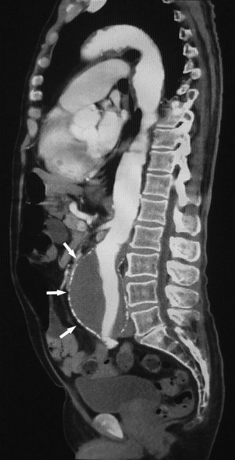 This is an example of bolus tracking in the use of imaging an abdominal aortic aneurysm (AAA).